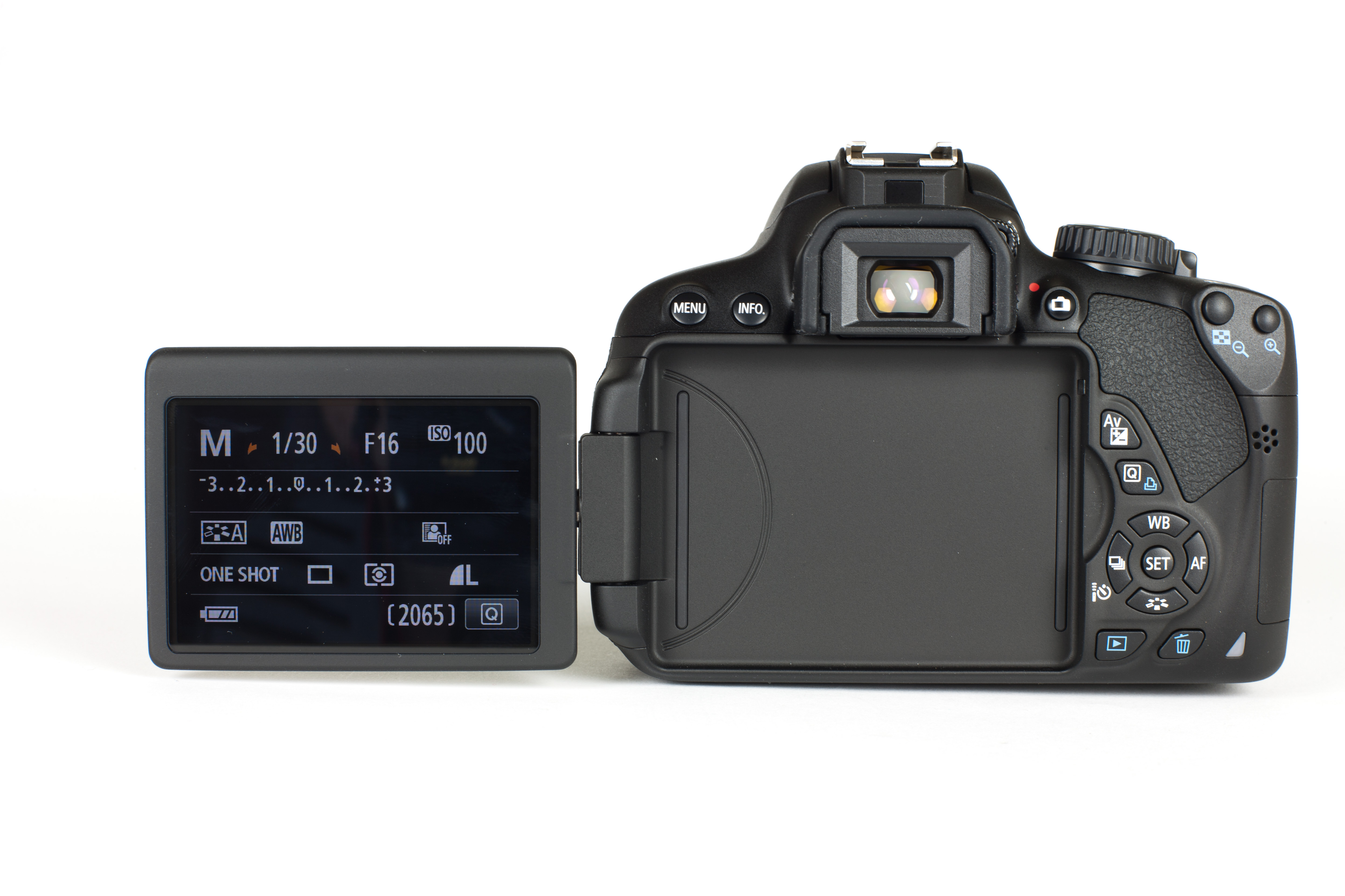 Rear view of a Canon EOS 650D with its display open.